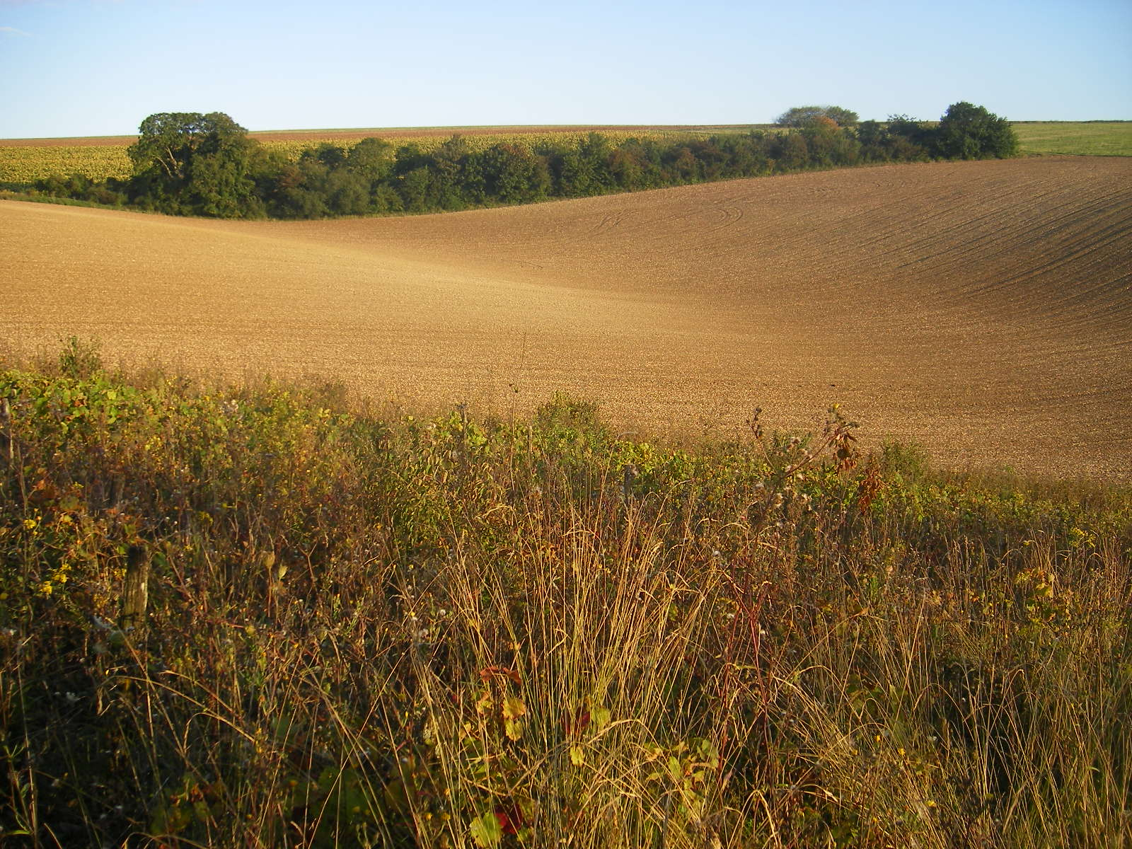 Landscape between Courson-les-Carrieres and Migé